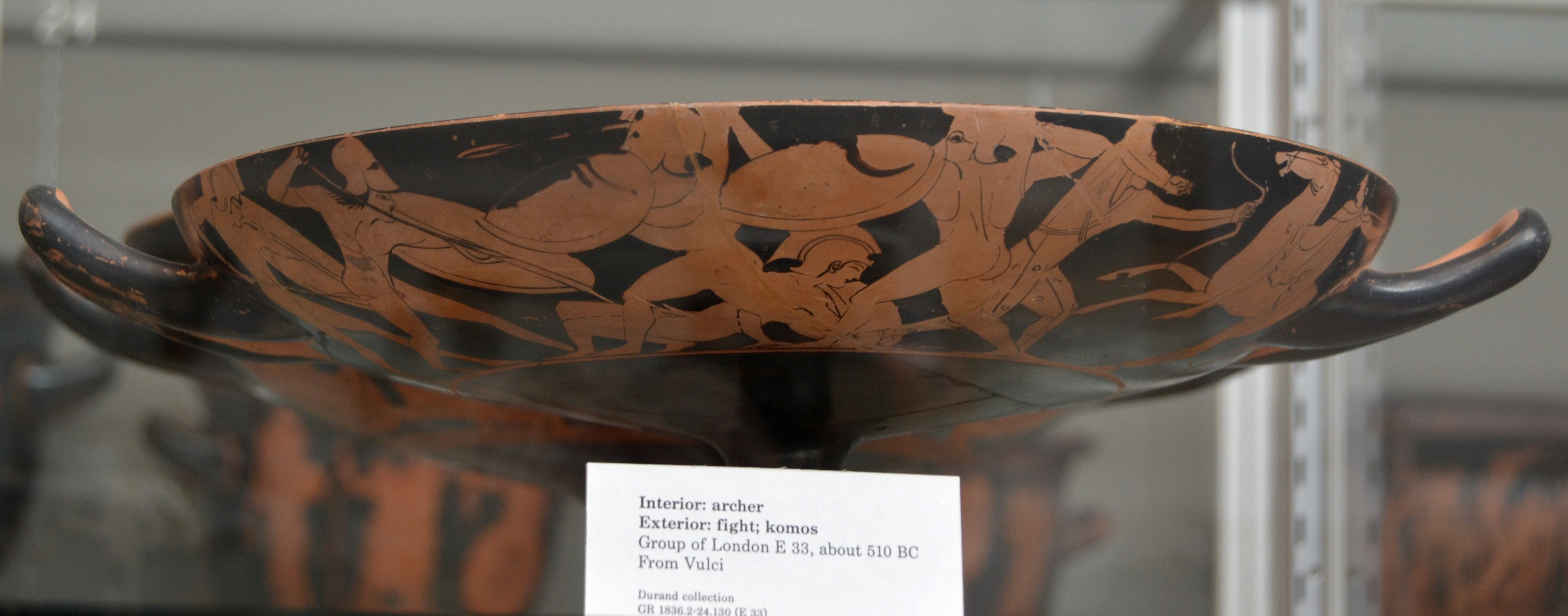 Fabric: ATHENIAN Technique: RED-FIGURE Shape Name: CUP Provenance: ITALY, ETRURIA, VULCI Date: -525 to -475 Inscriptions: Signature: EPOIESEN Attributed To: LONDON E 33, GROUP OF by BEAZLEY Decoration: A: FIGHT, WARRIORS, ARCHER, HORSEMAN, BULL HEAD, BUKRANION (?) B: KOMOS, YOUTHS AND MEN, WITH SKYPHOS, CUP, KRATER I: ARCHER Current Collection: London, British Museum: E33 Publication Record: Beazley, J.D., Attic Red-Figure Vase-Painters, 2nd edition (Oxford, 1963): 80.1 Beazley, J.D., Attic Red-figure Vase-painters, 1st ed. (Oxford, 1942): 52.6 Beazley, J.D., Attische Vasenmaler des rotfigurigen Stils (Tubingen, 1925): 29.6 Jahrbuch des Deutschen Archaologischen Instituts: 44 (1930) 192 (I, PART OF B) Murray, A.S., Designs from Greek vases in the British Museum (London, 1894): FIG.19 (I)